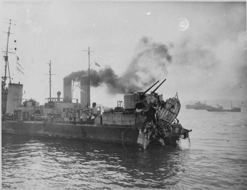 IWM caption : THE ROYAL NAVY DURING THE SECOND WORLD WAR: OPERATION TORCH, NORTH AFRICA, NOVEMBER 1942. British destroyer HMS MARNE, whose stern was blown off by a torpedo, being towed into Gibraltar.